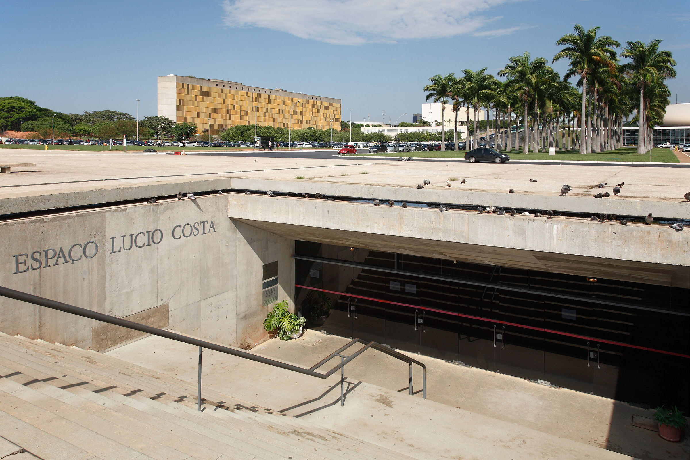 Entrance of the Espaço Lúcio Costa underground museum on the Praça dos Três Poderes in Brasília, Brazil. In the background, the Annex IV of the Chamber of Deputies.